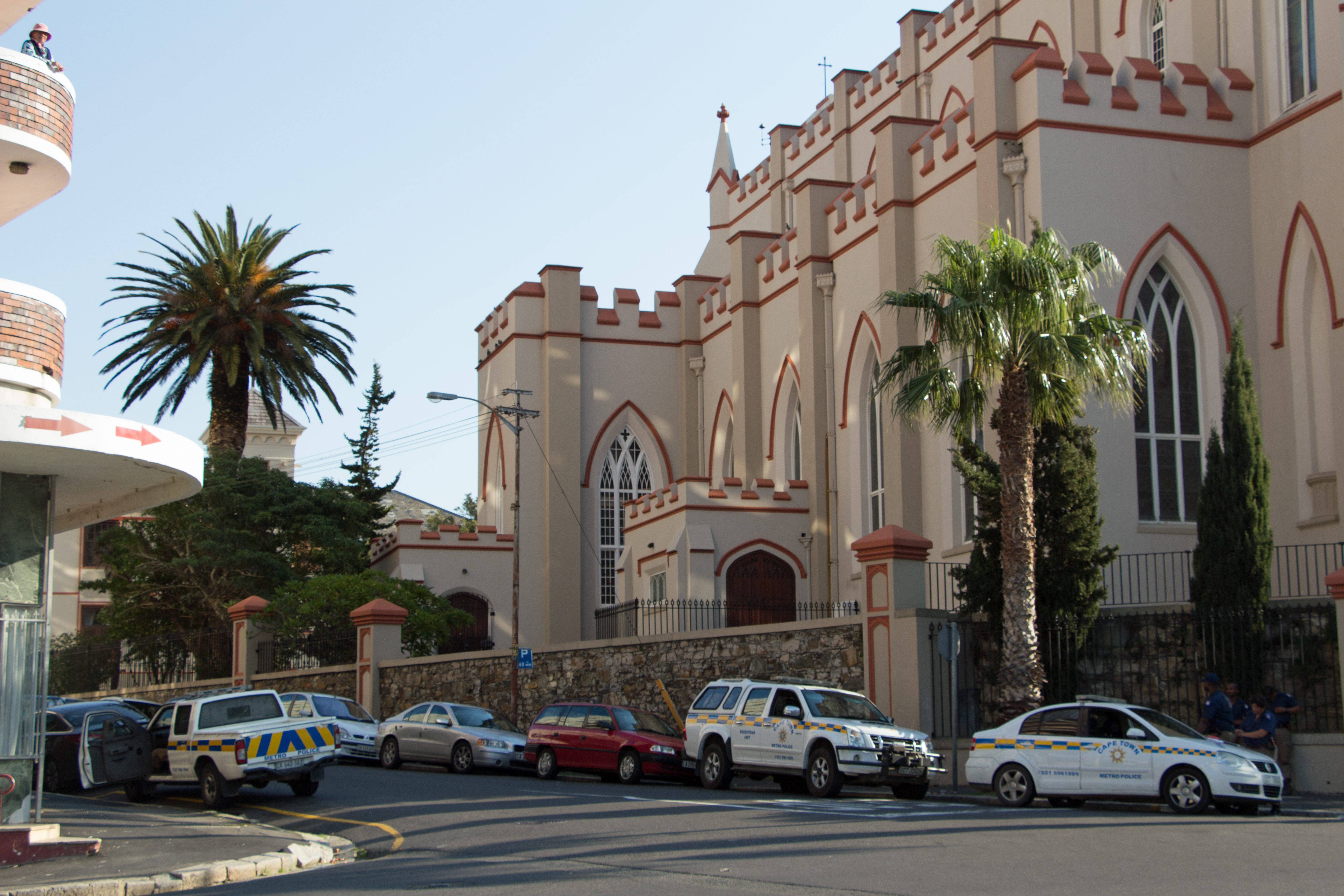 St Mary's Cathedral, Cape Town, South Africa (from Hope Street)